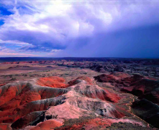 Storm over the Painted Desert, Petrified Forest National Park